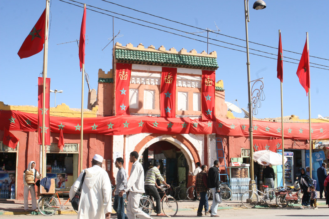 Erfoud Market Souq Morocco